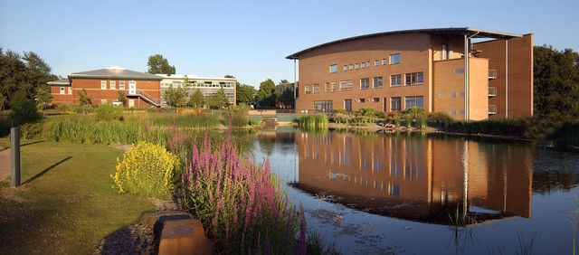 The £3m LINC opened in 2000. It gives students 24 hr access to 220 high-speed, internet connected PCs and satellite TV and houses the University’s TV Studio, radio production, editing and multimedia production facilities.